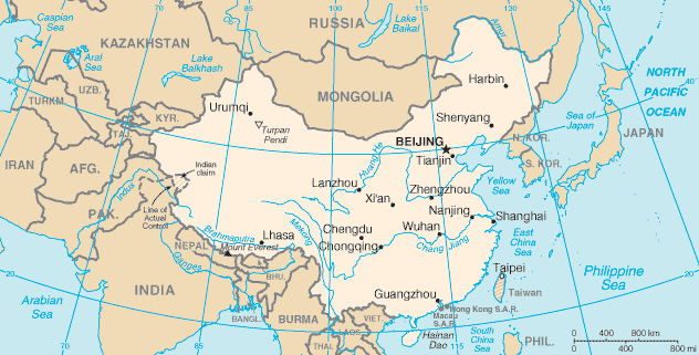 CIA map of China